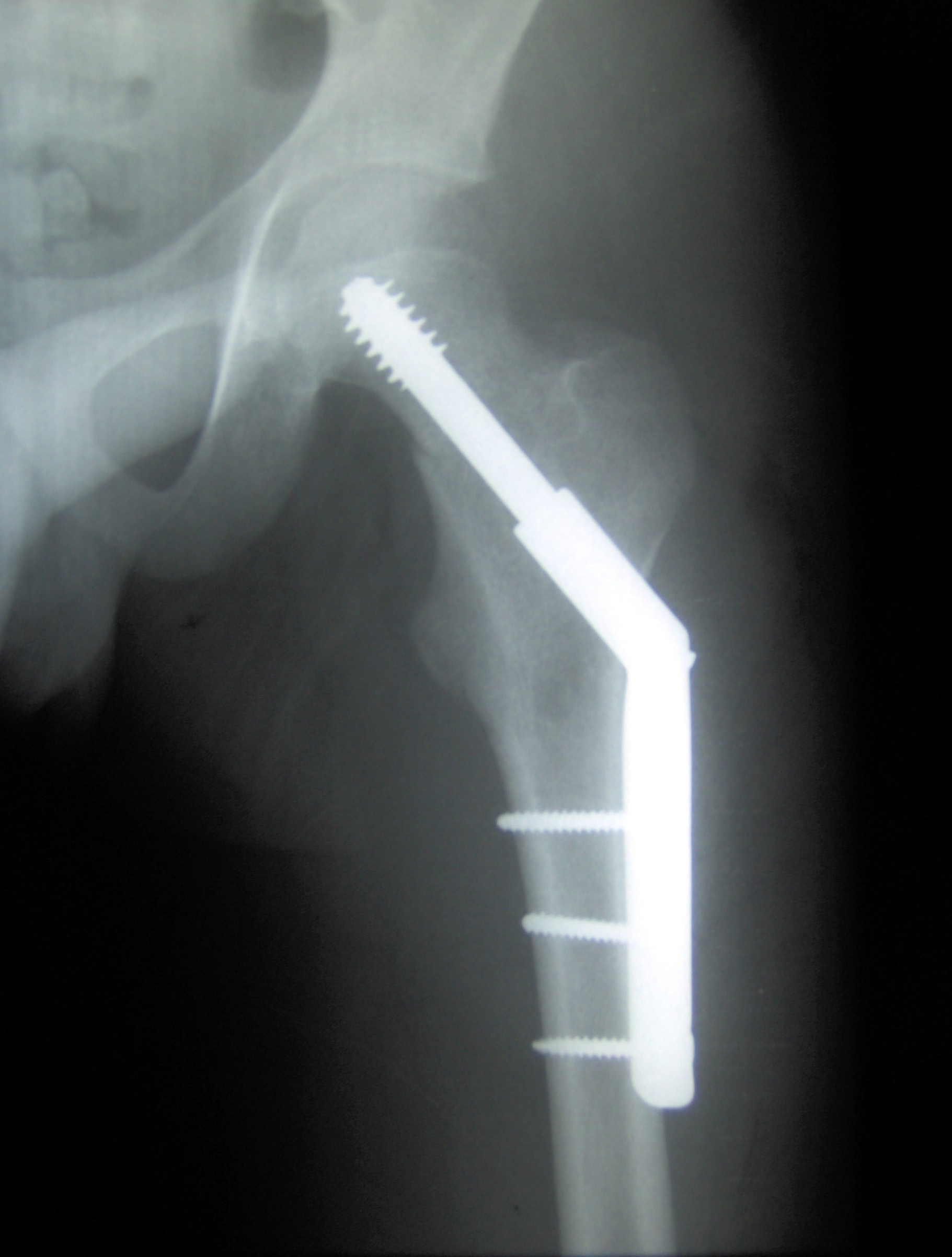 X-ray image of my own hip, with orthopedic implant on femur